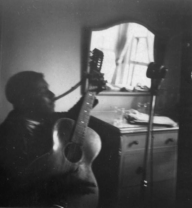 Blind Willie McTell, with 12-string guitar, hotel room, Atlanta, Georgia.